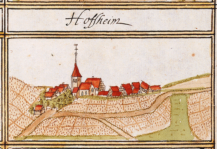 View of Hofen, Bönnigheim, from the forest register books created by Andreas Kieser